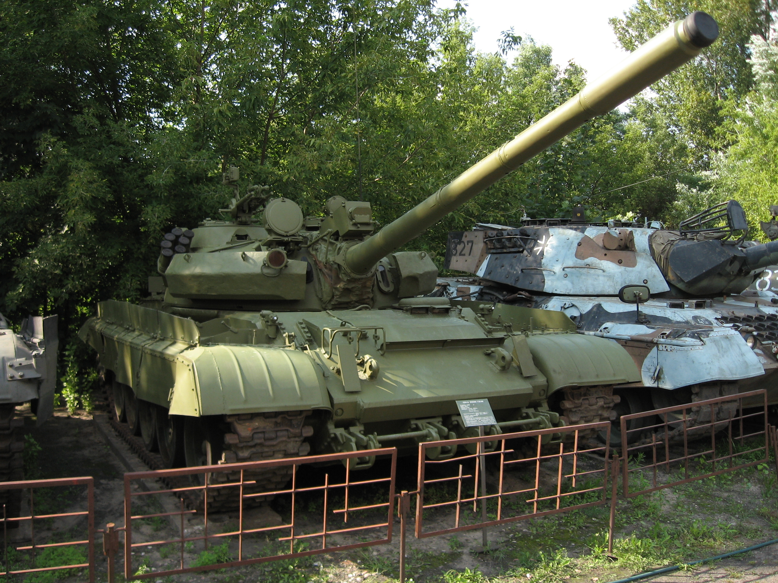 T-55AM main battle tank at the Muzeum Polskije Techniki Wojskowej.